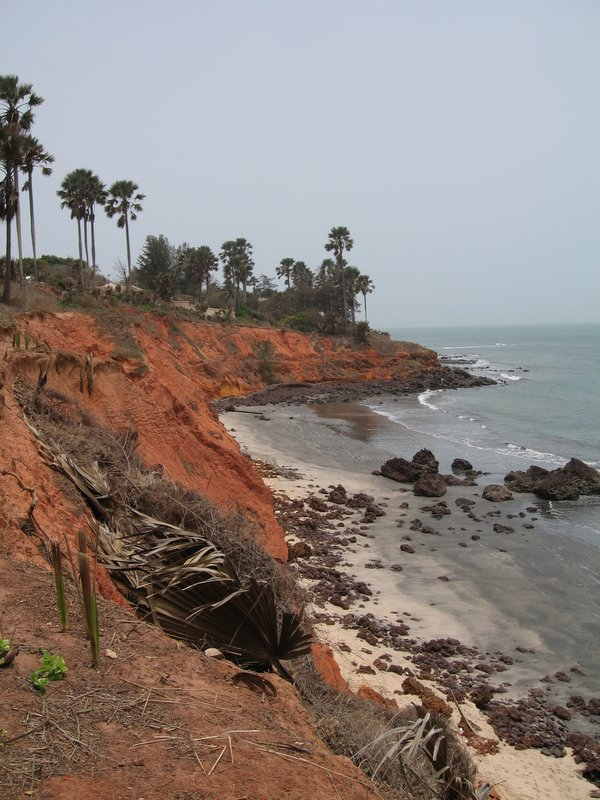 The Beach by Fajara